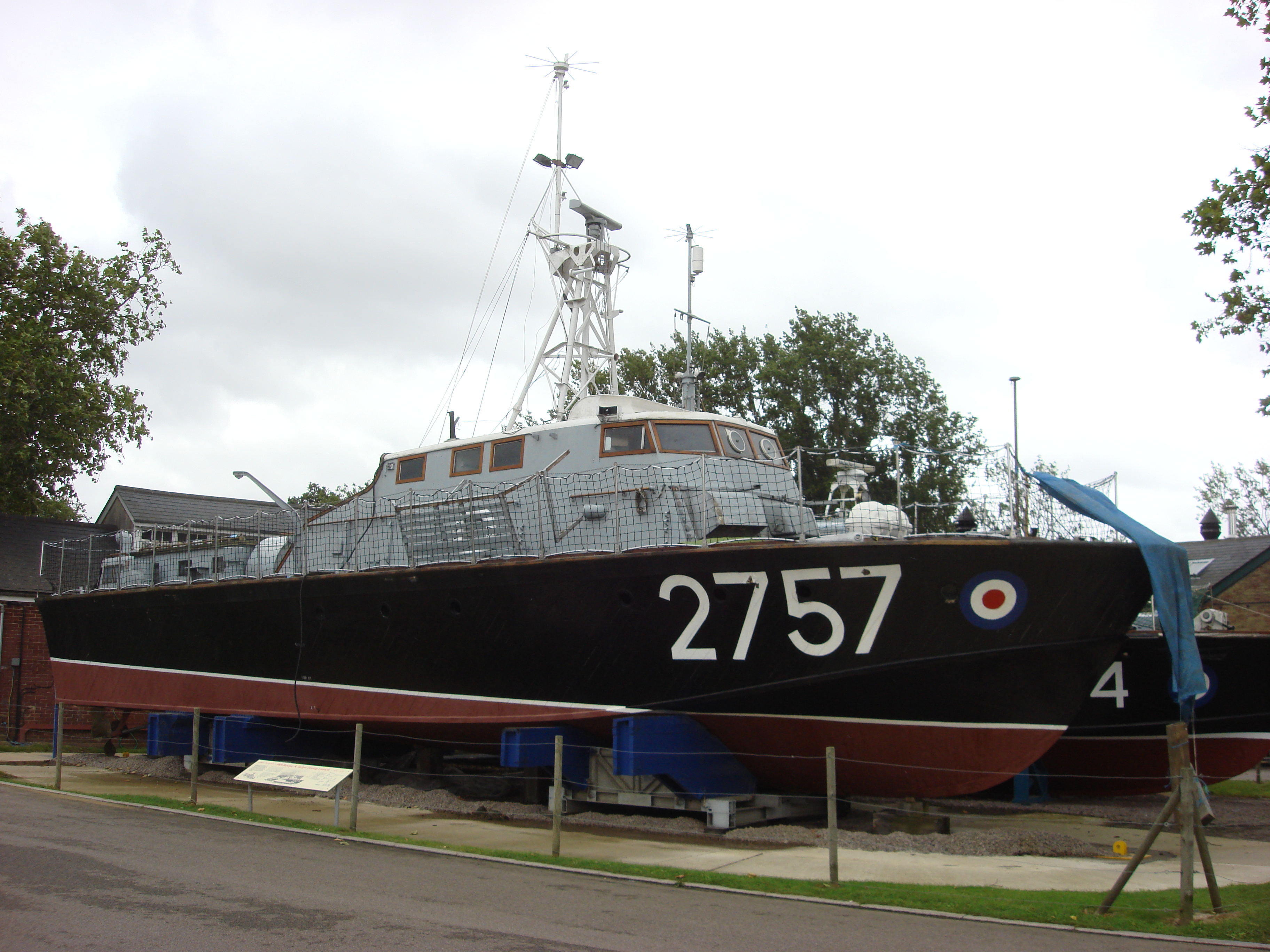 Vosper Thornycroft 68ft Rescue & Target Towing Launch at the RAF Museum, London. This vessel used to be used for target towing for RAF strike and anti submarine aircraft it could also be used in search and rescue missions.